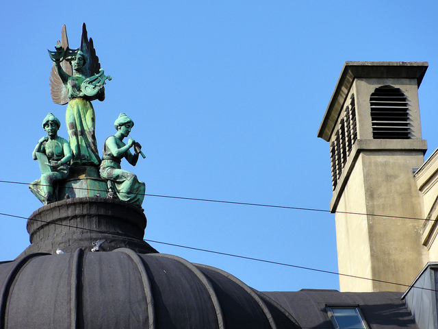 Roof-top sculpture group of Det Ny Teater, a theatre in Copenhagen, Denmark